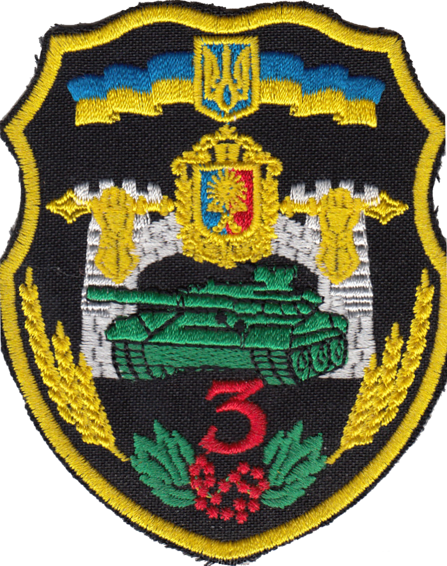 Shoulder sleeve insignia of the Ukrainian Army 3rd Armored Brigade